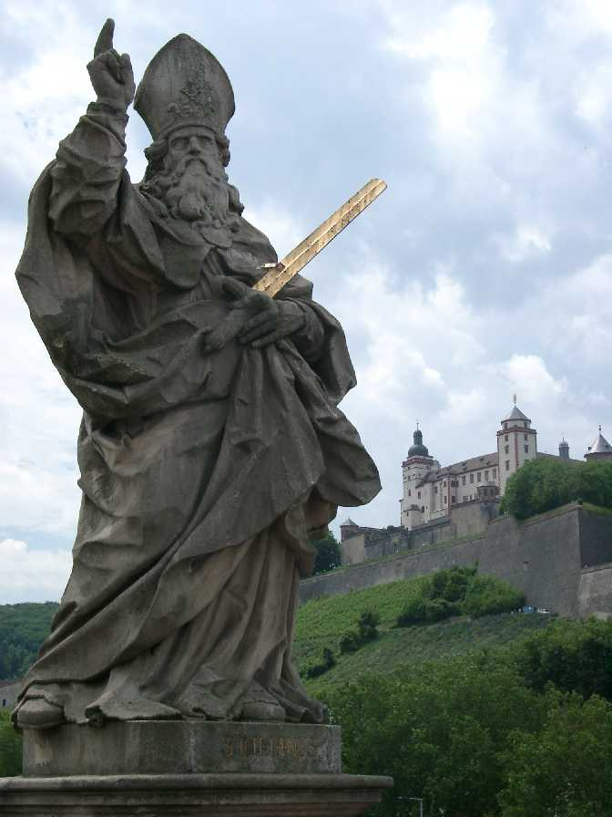 View from Old Main Bridge in Würzburg towards Festung Marienberg. St.Kilian in front with his golden sword.